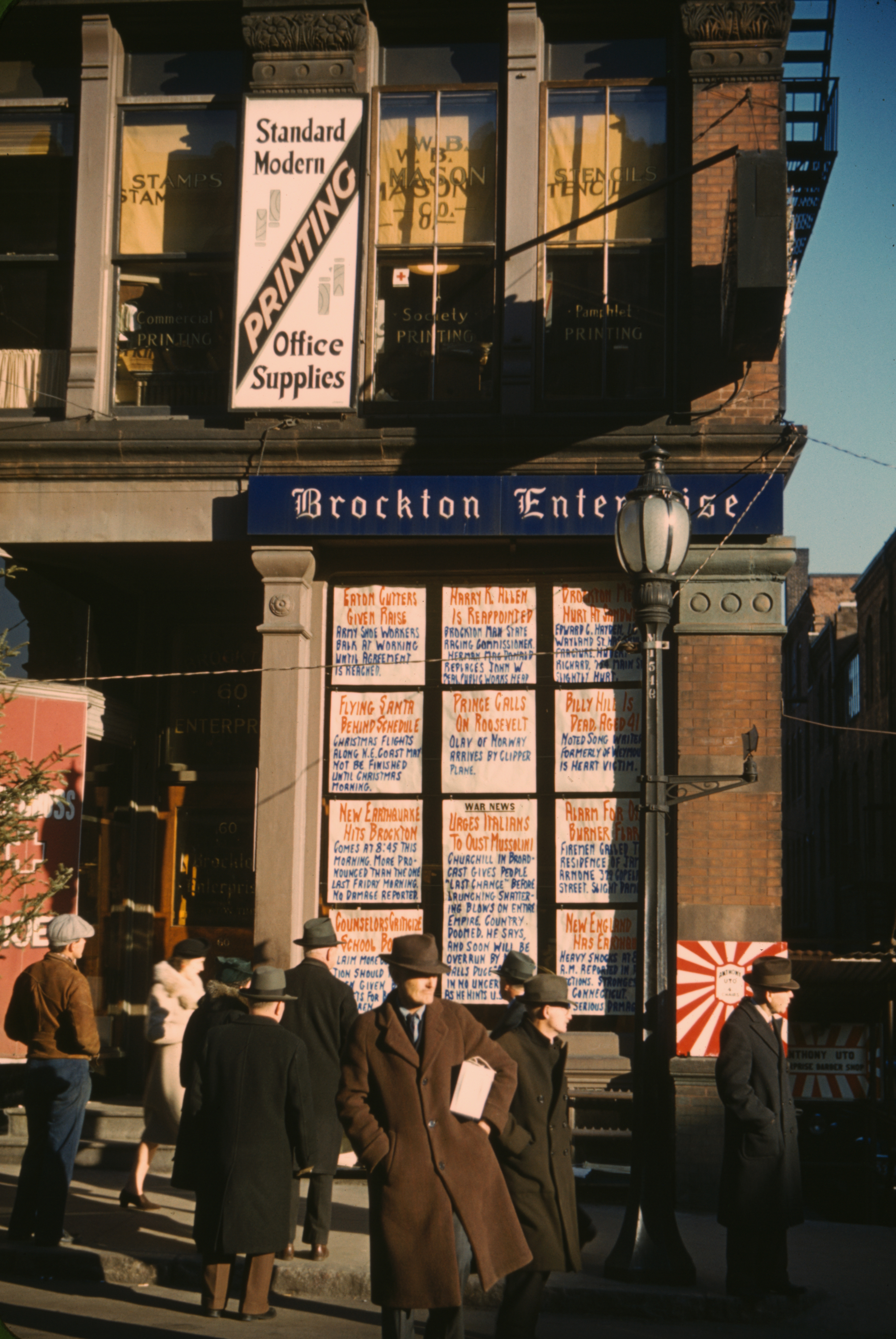 Headlines posted in street-corner window of newspaper off[ice] (Brockton Enterprise) ... Brockton, Mass.